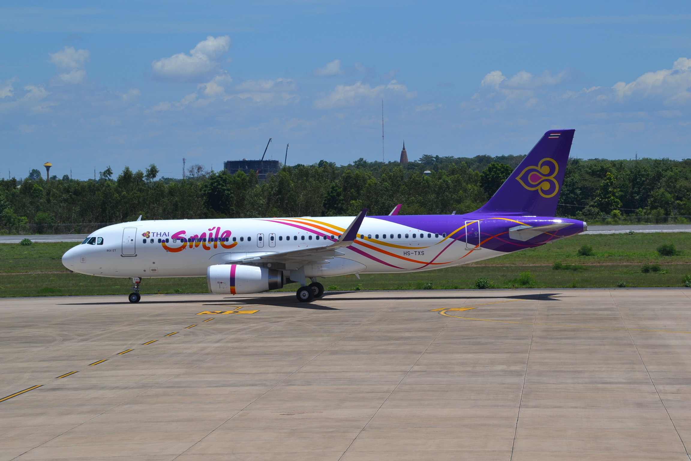 Airbus A320(SL) of Thai Smile at Khon Kaen-KKC, Thailand, 10/06/15.